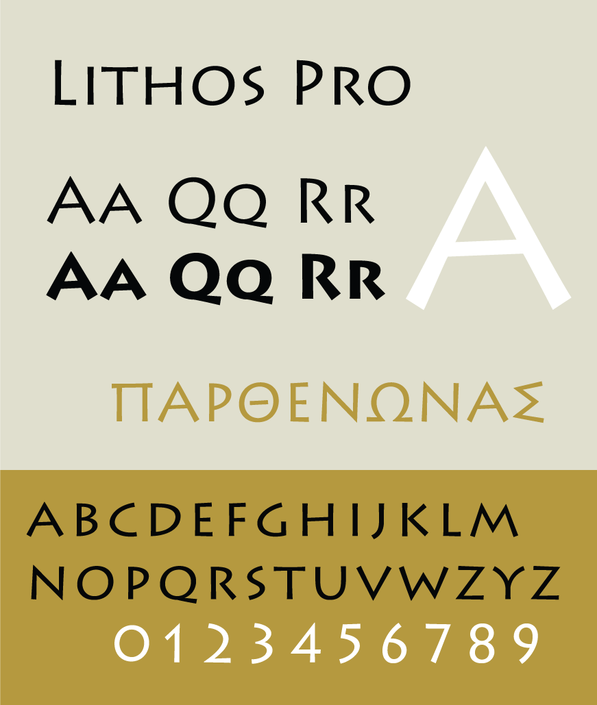 A type specimen for Lithos Pro, using User:GearedBull's template